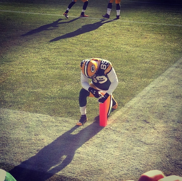 Pre-game picutre of James Jones (vs Titans)